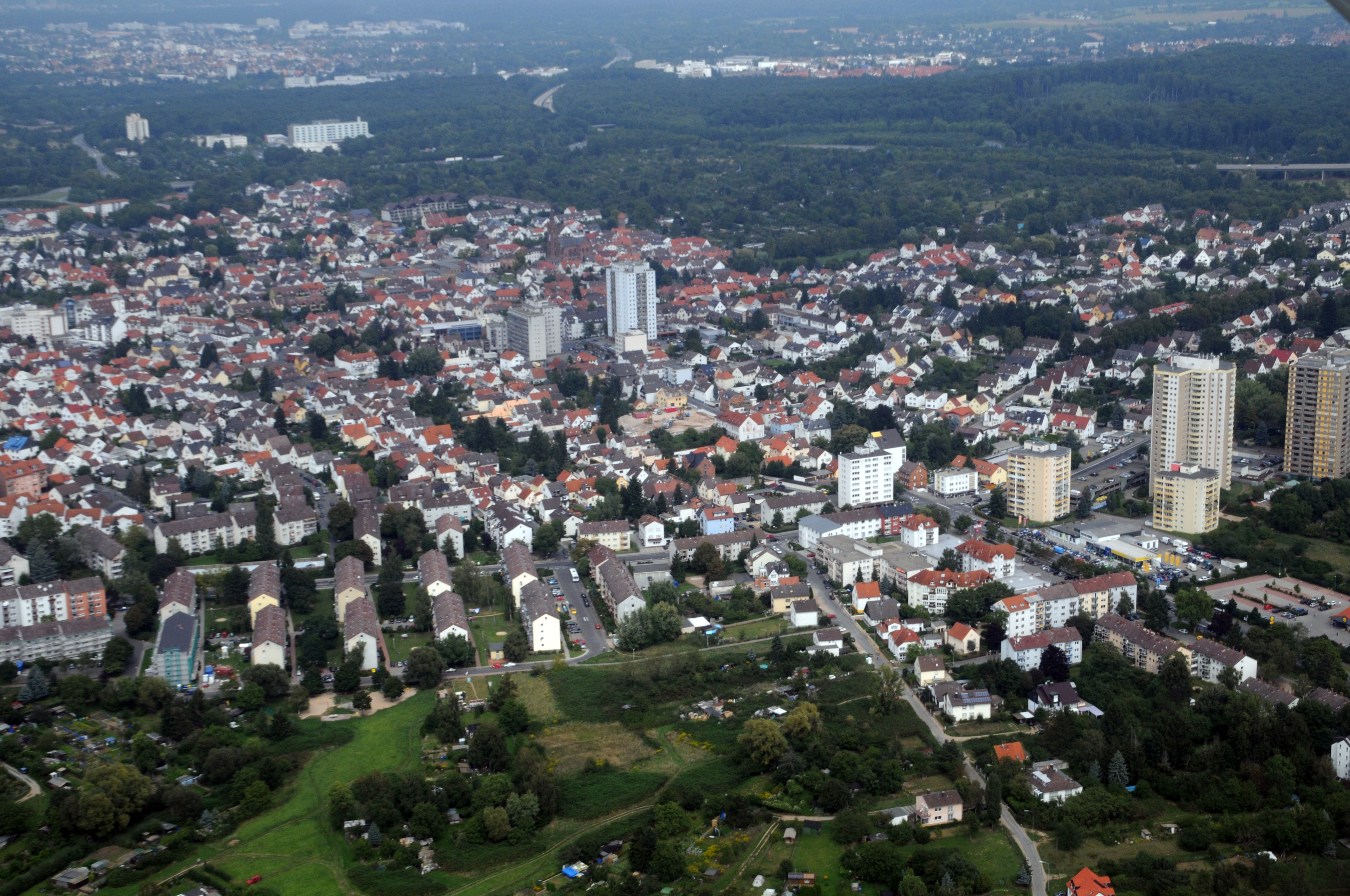 Langen, Hesse, Germany, aerial photograph